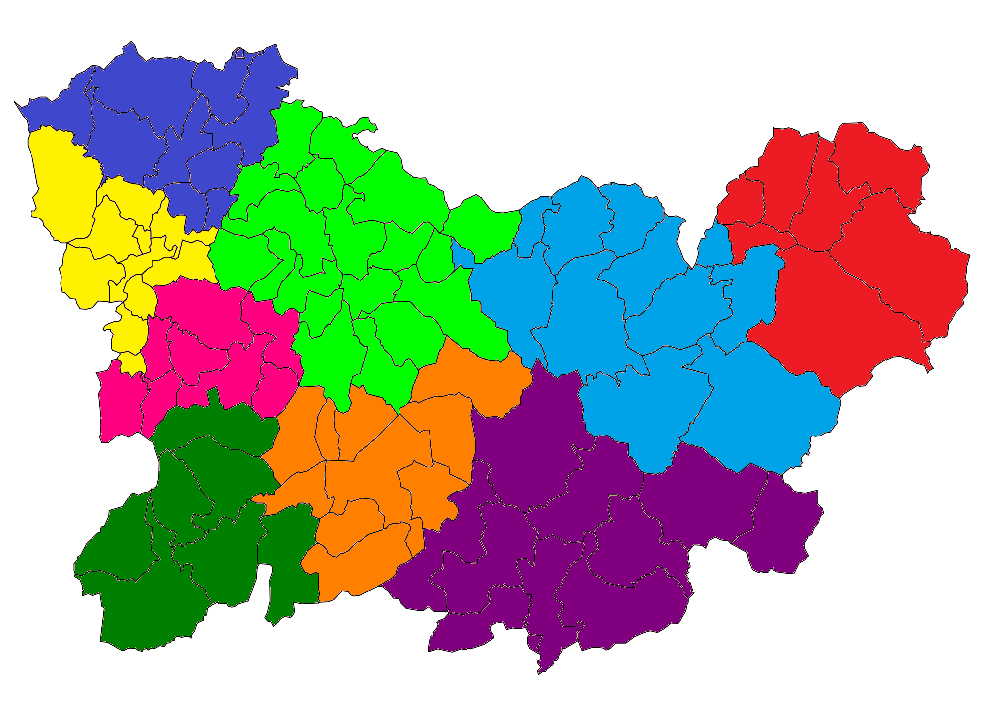 Law parties of Orense